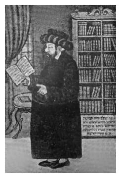 Rabbi Menachem Mendel Hager, zt"l, the author of Tzemach Tzaddik, the first Viznitzer Rebbe